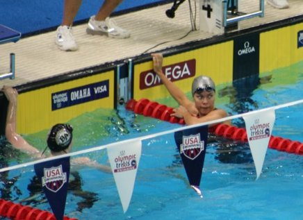 Photo of Natalie Coughlin during 2008 Olympic Trials (Omaha, Nebraska)